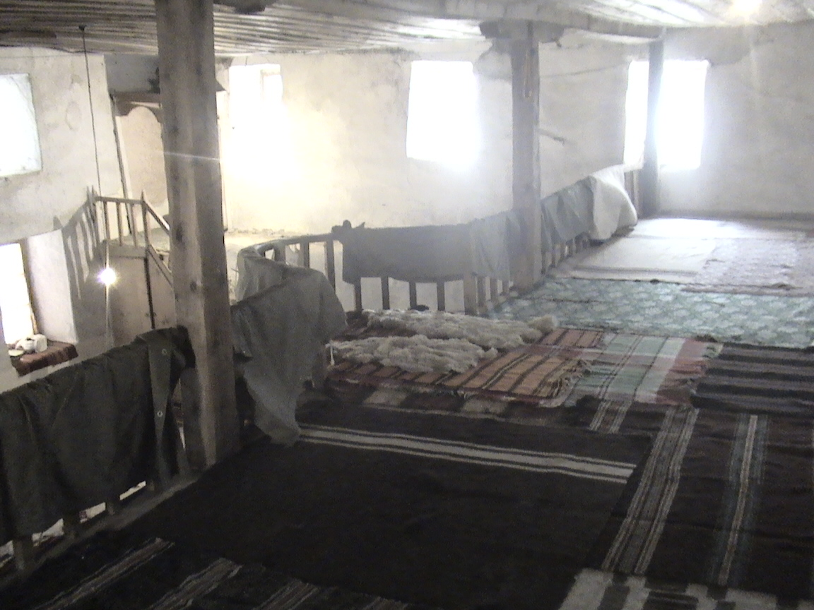 The interior of mosque the village of Mugla.